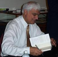 Ravi Zacharias signing books at the Future of Truth conference (2004) at Moody Memorial Church in Chicago, Illinois.